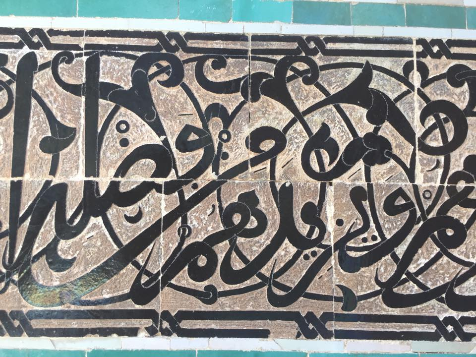 Arabic calligraphy found in Fes, Morocco